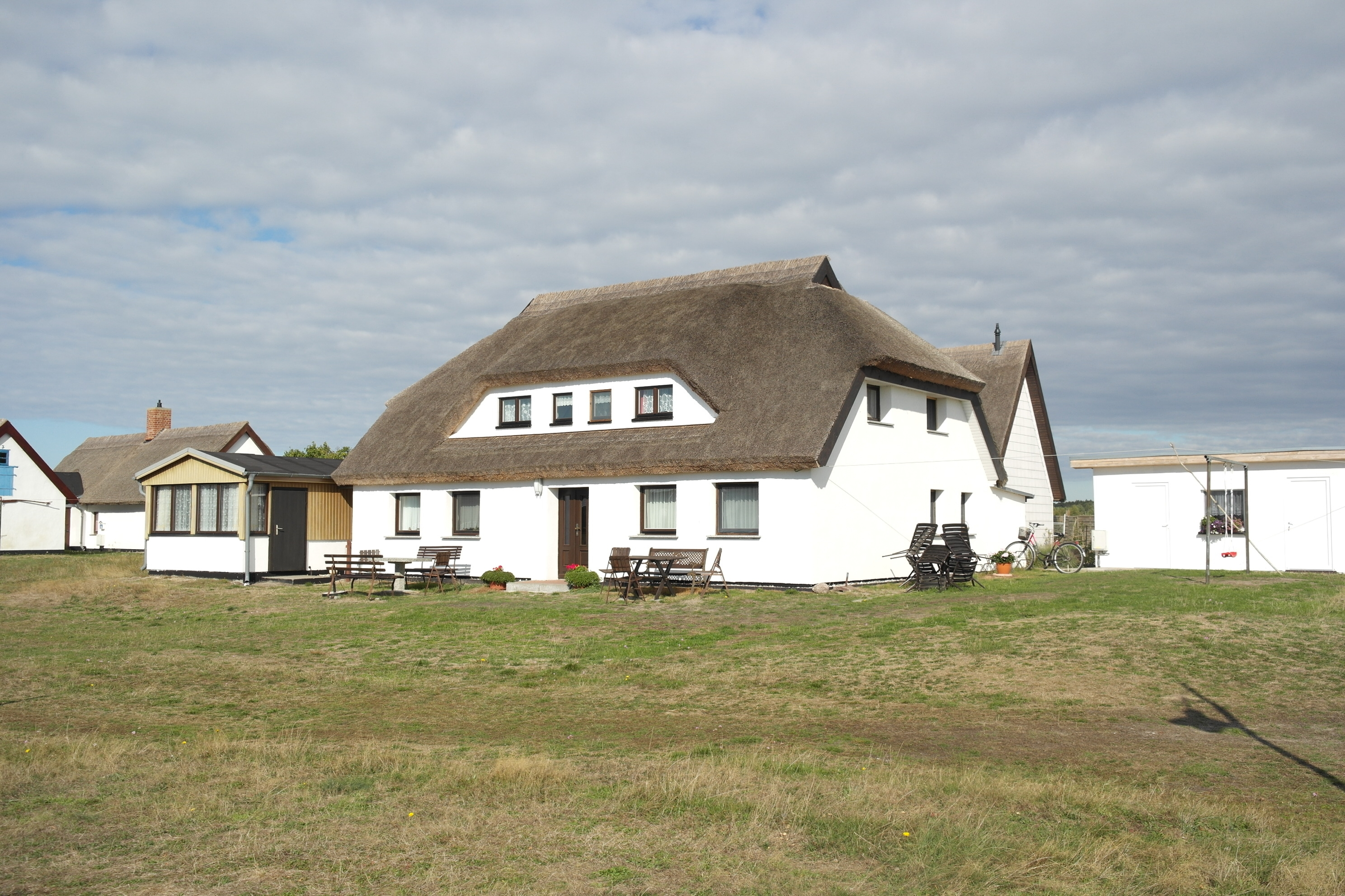 Neuendorf, living house Schabernack 15, cultural heritage